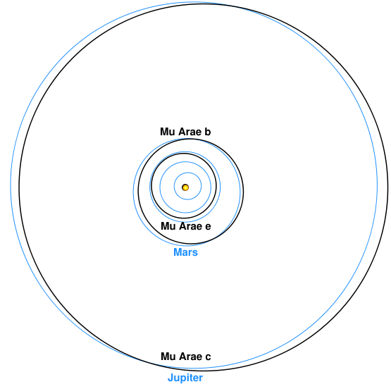 The orbits of the exoplanets around the yellow dwarf Mu Arae